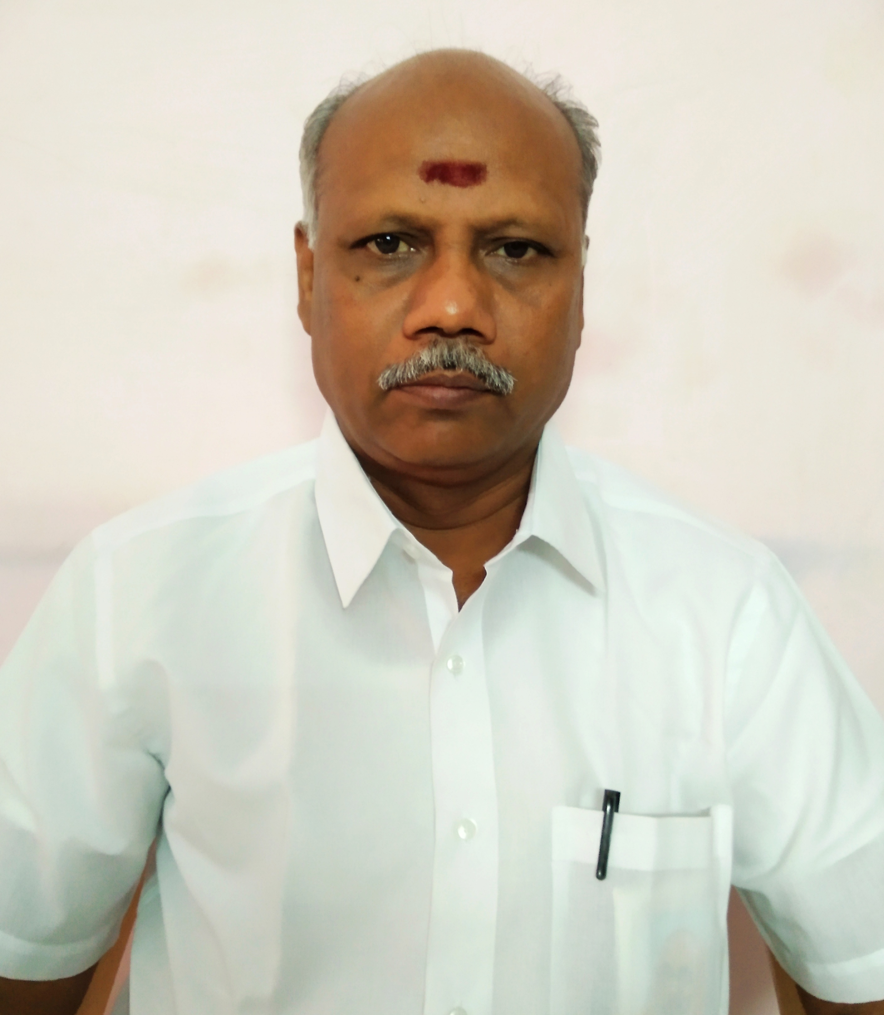 This file if tada periyasamy photo which taken by me with my redmi Y2 device